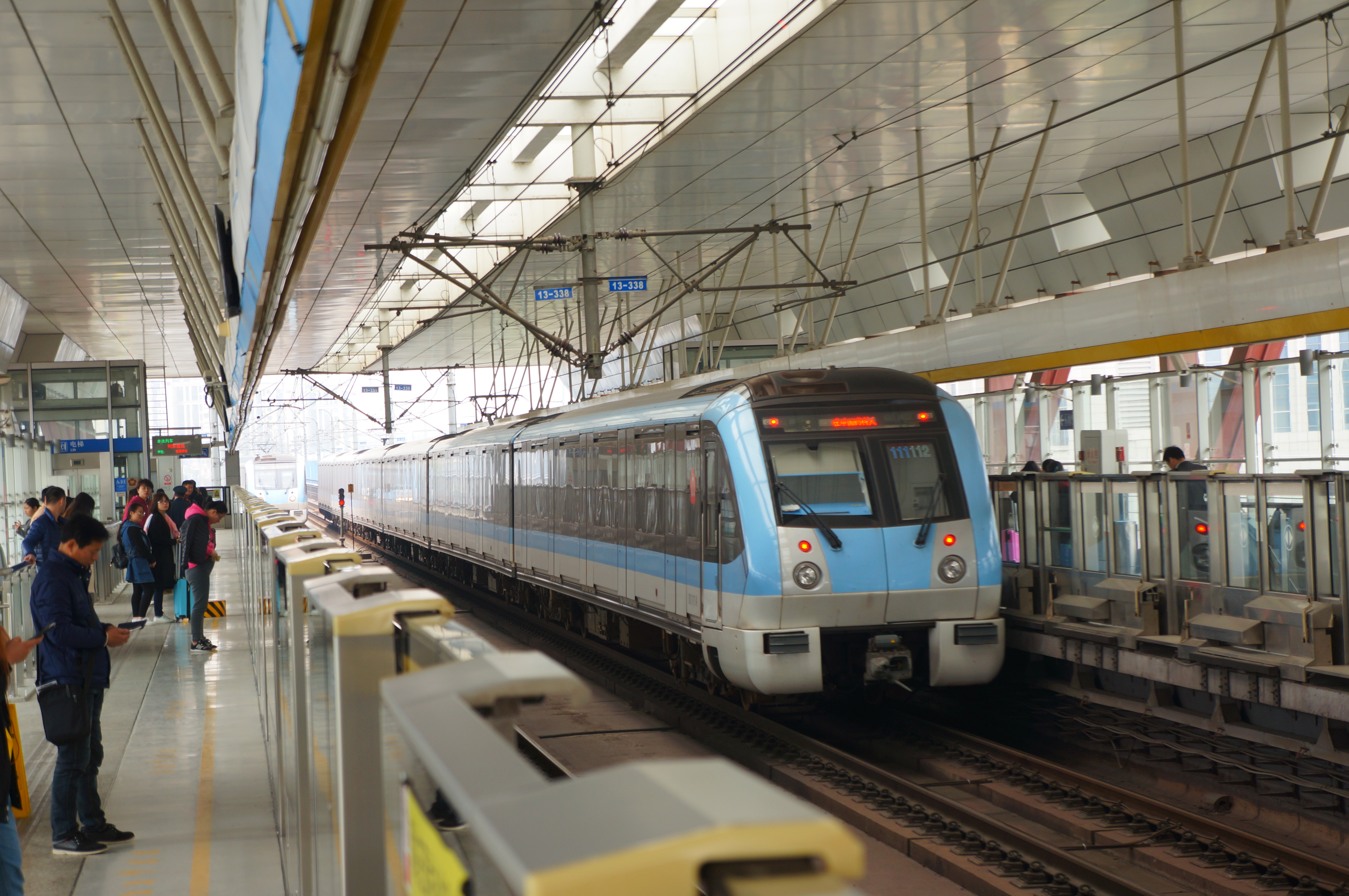 201704 NJM-111112 at NMU.JETT Station. Familiar Sound